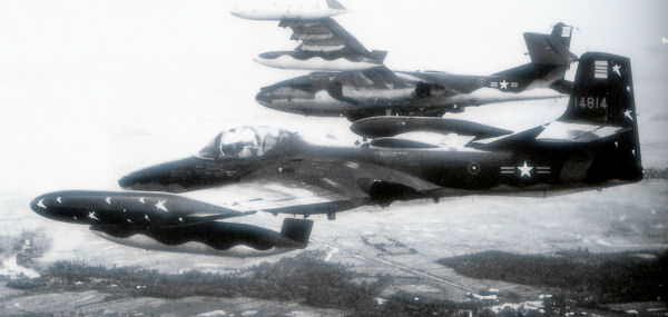 A-37Bs of the 74th Tactical Wing, South Vietnamese Air Force - Bin Thuy Air Base.